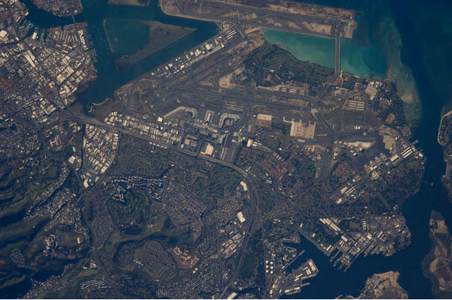 Astronaut Photography of Honolulu Hawaii taken from the International Sapce Station (ISS)